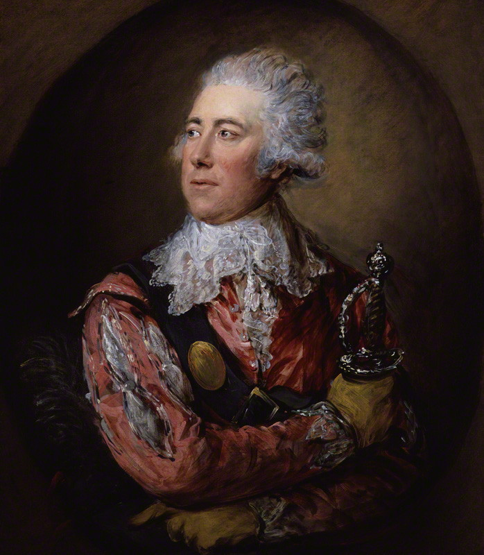 Portrait of William Thomas Lewis (1748?–1811), known as "Gentleman" Lewis, English actor, as Mercutio in Romeo and Juliet.